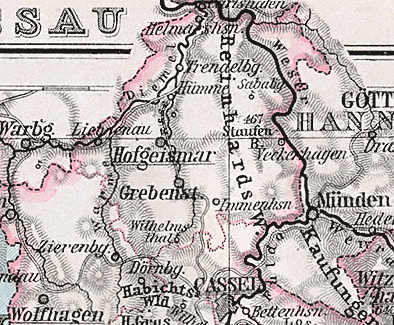 Detail from a map of Hesse.